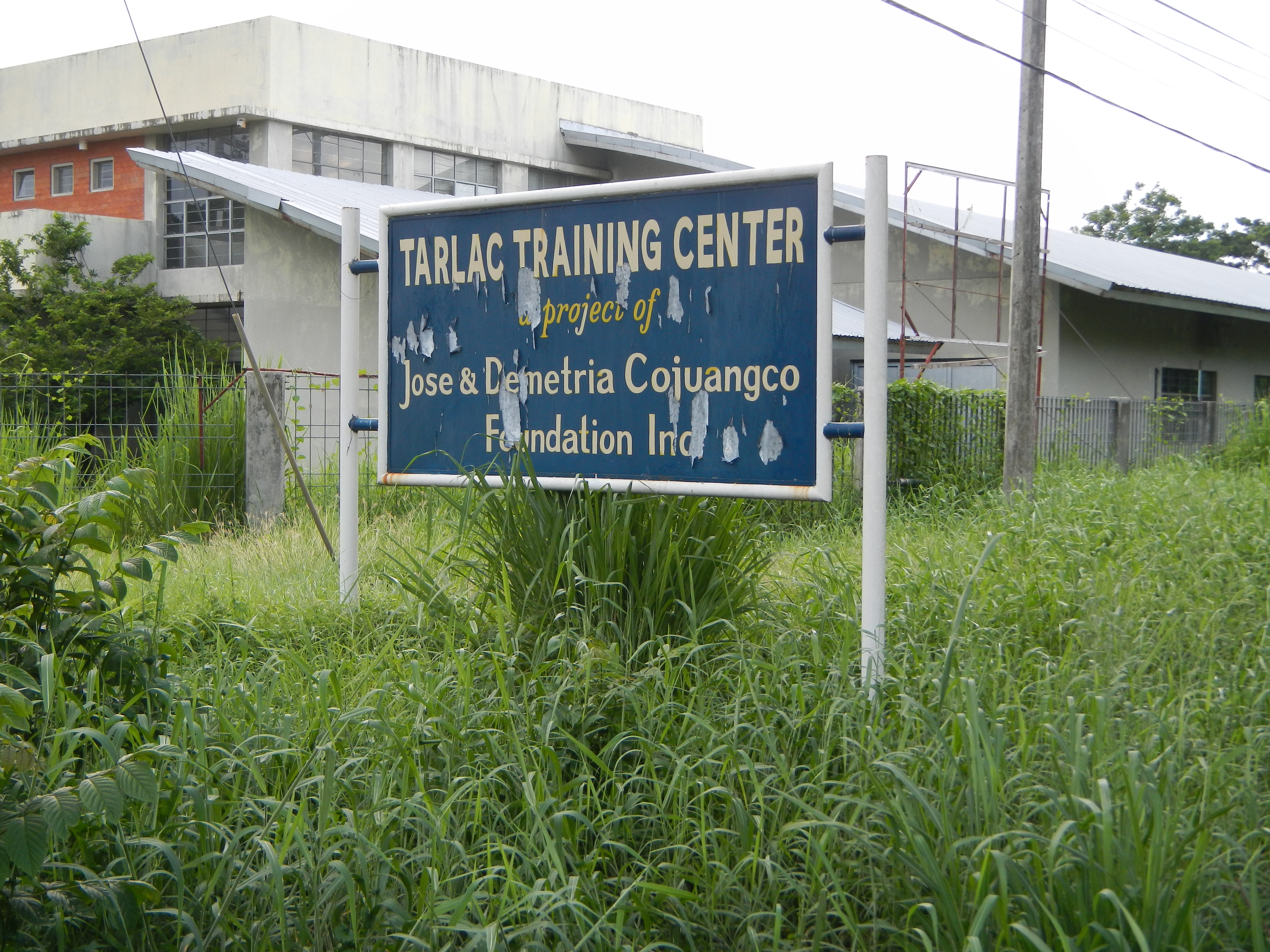 Las Haciendas de Lusita, Residential, Golf and Country Club, Tarlac Training Center, Jose and Demetria Cojuanco Foundation, Luisita Industrial and Business Park, Central Park Hotel, Luisita Realty Corporation, from San Miguel, Tarlac, Tarlac City from and along along Hacienda Luisita Road (San Miguel, Capehan, Balite, Lourdes, Central and Mapalacsiao, Tarlac City) Hacienda Luisita from MacArthur Highway in front of Camp Servillano Aquno, Hacienda Luisita Complex; Plaza Luisita, Hacienda Luisita.